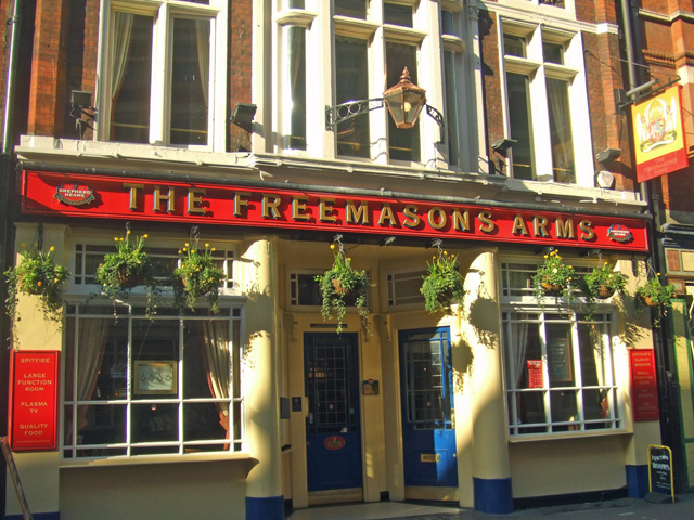 Darwin attended the annual meeting of the Philoperisteron Society for pigeon fanciers here on 8 January 1856 and became a member later that year.